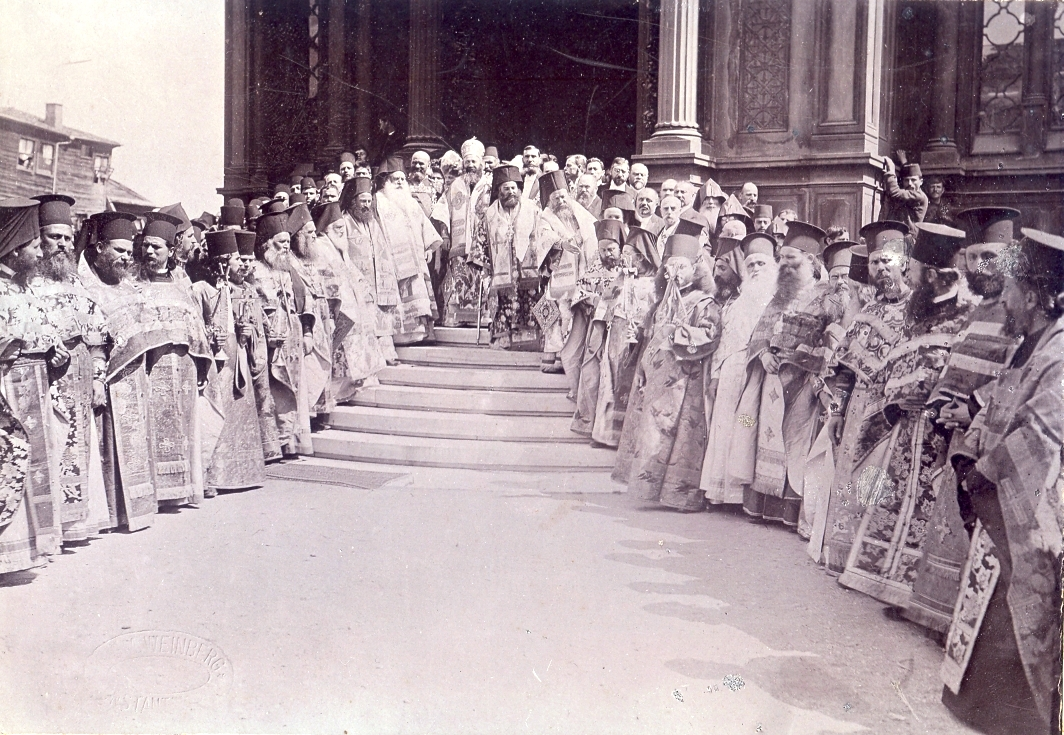 25th Anniversary of the enthronement of His Beatitude Joseph I of Bulgaria in the Bulgarian Exarchate of Tsarigrad